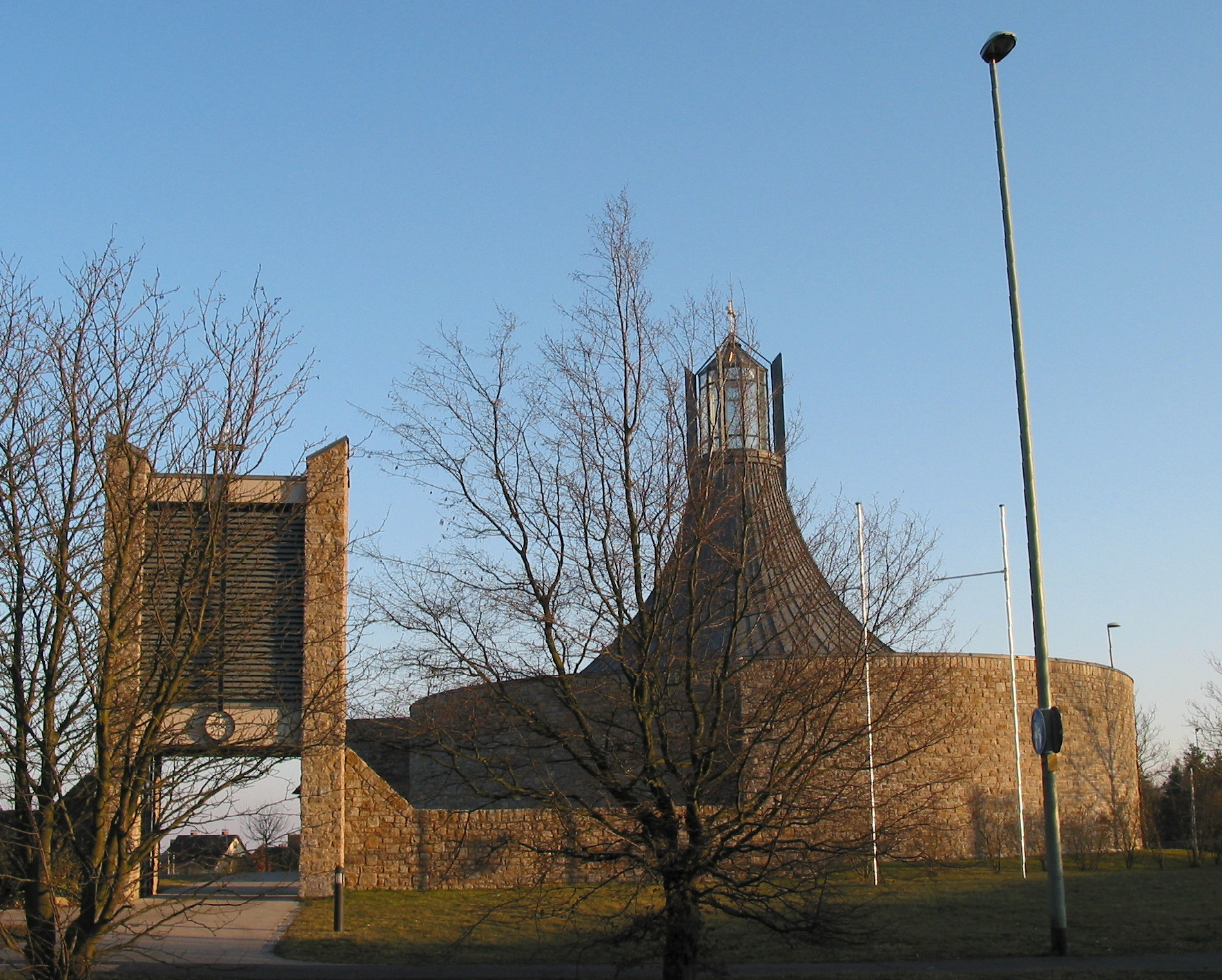 Gethsemane church in Würzburg